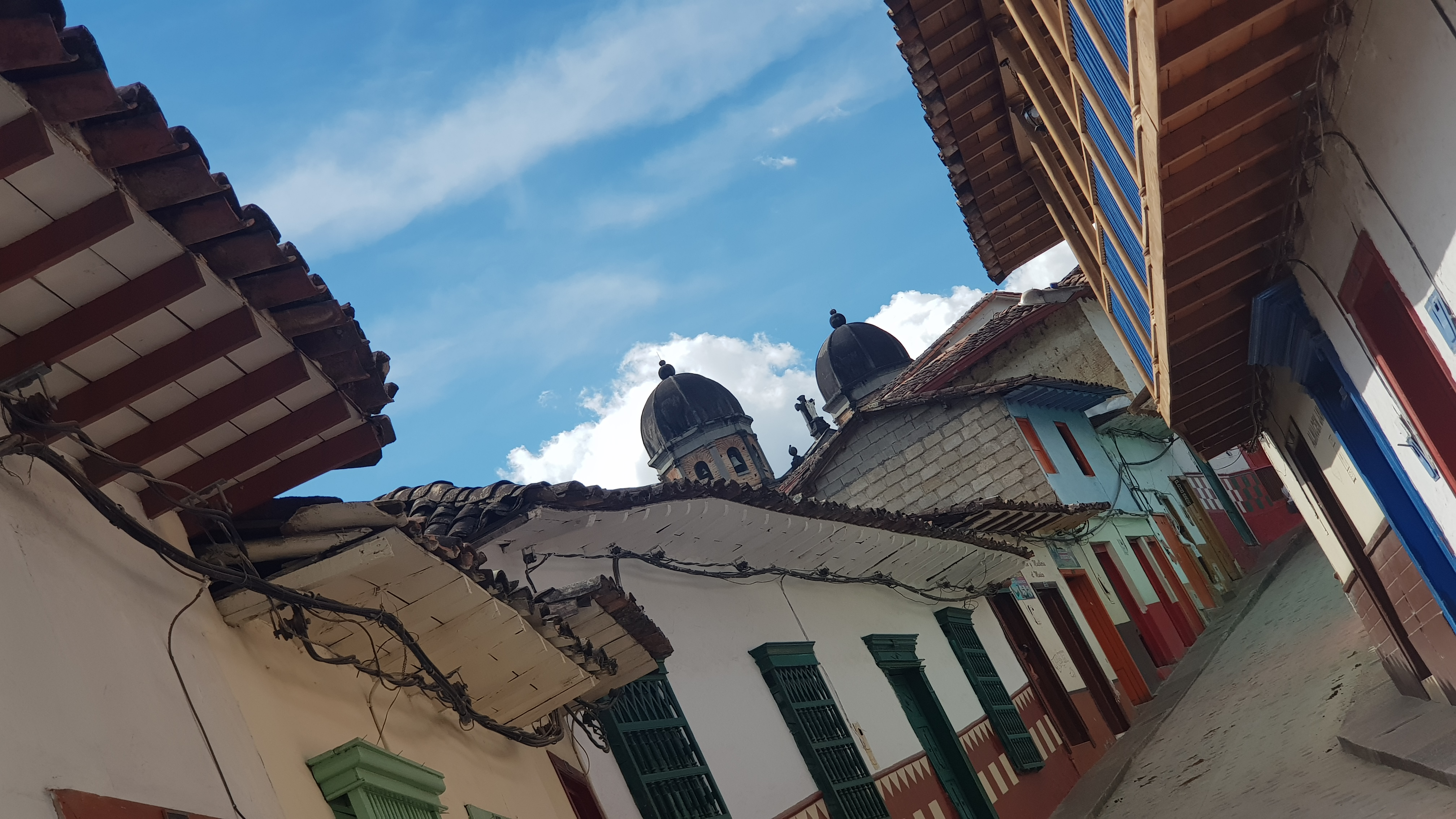 Streets of Concepción, Antioquia